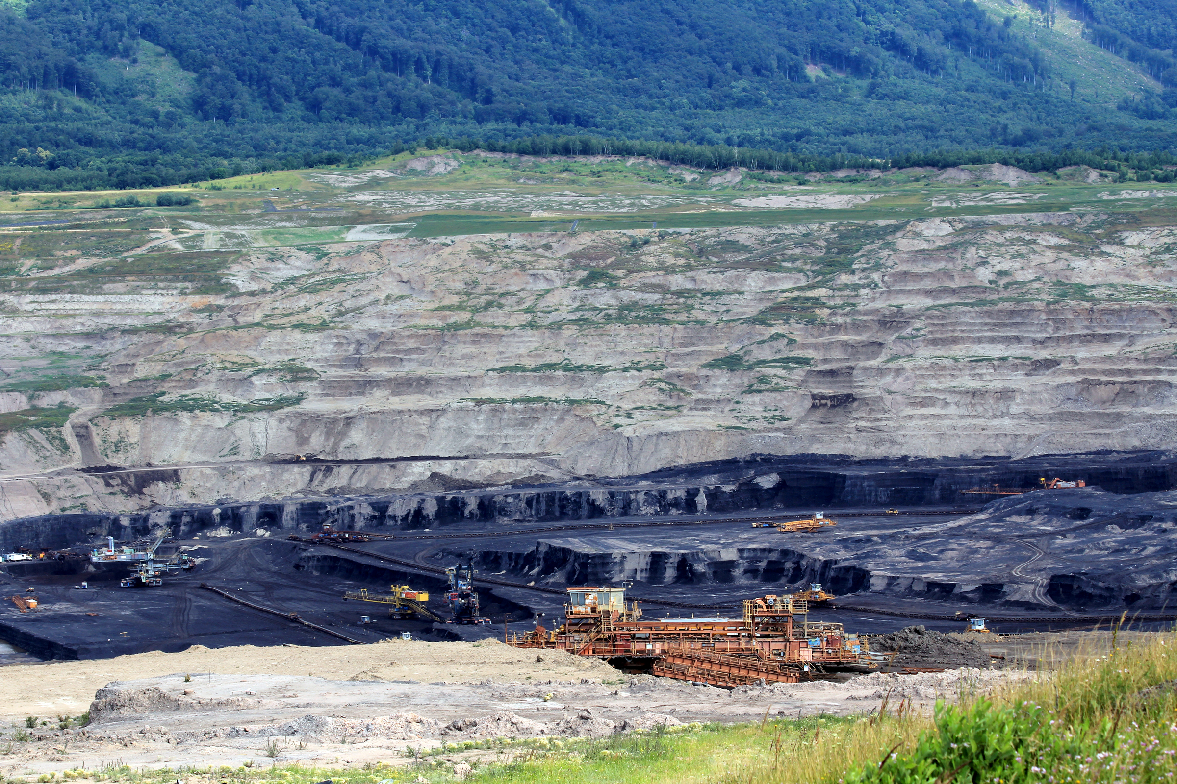 Central part for coal mining of the Lom ČSA, coal mine near town Most, Czech Republic